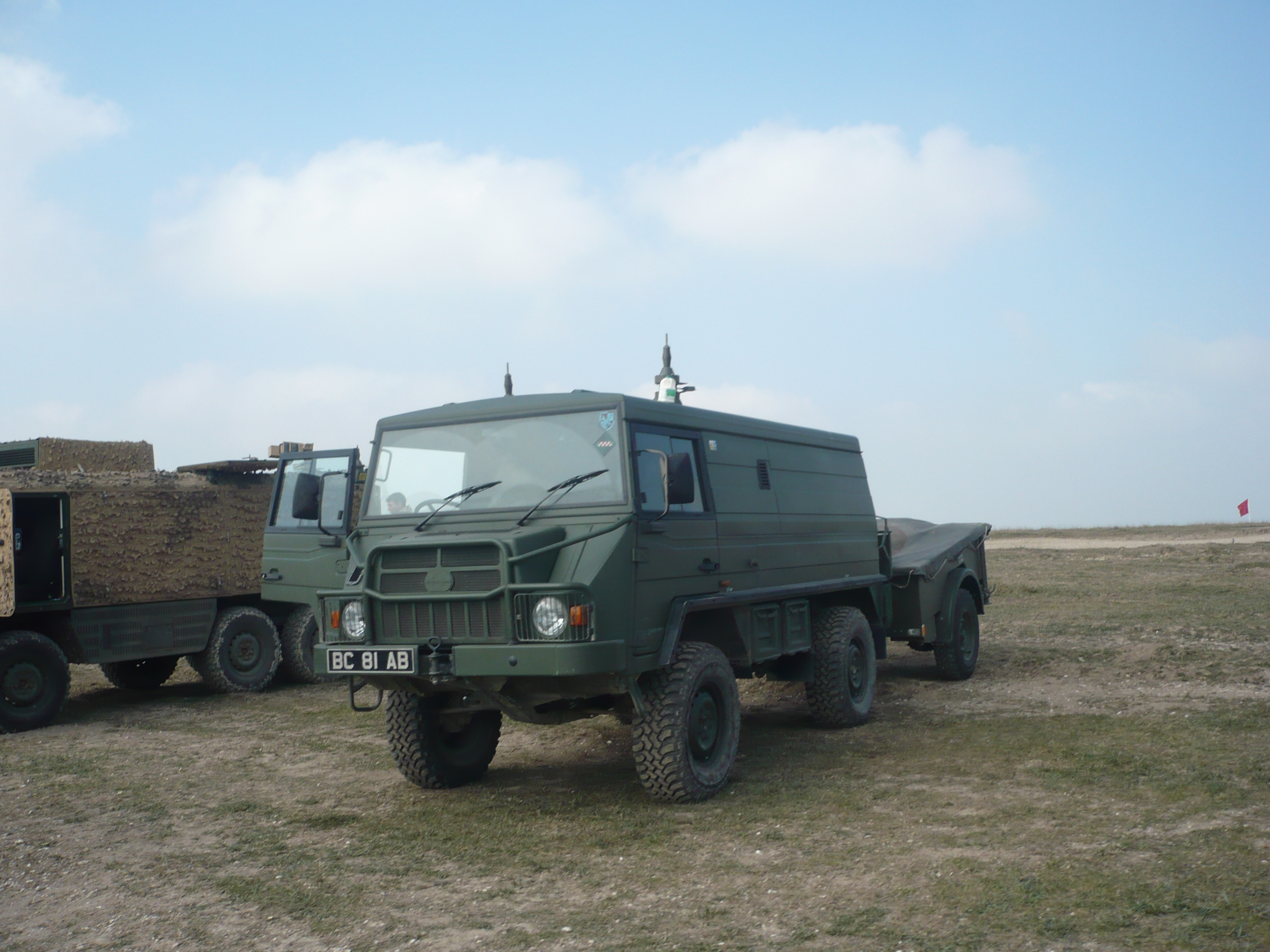 Pinzgauer & Trailer of British Army